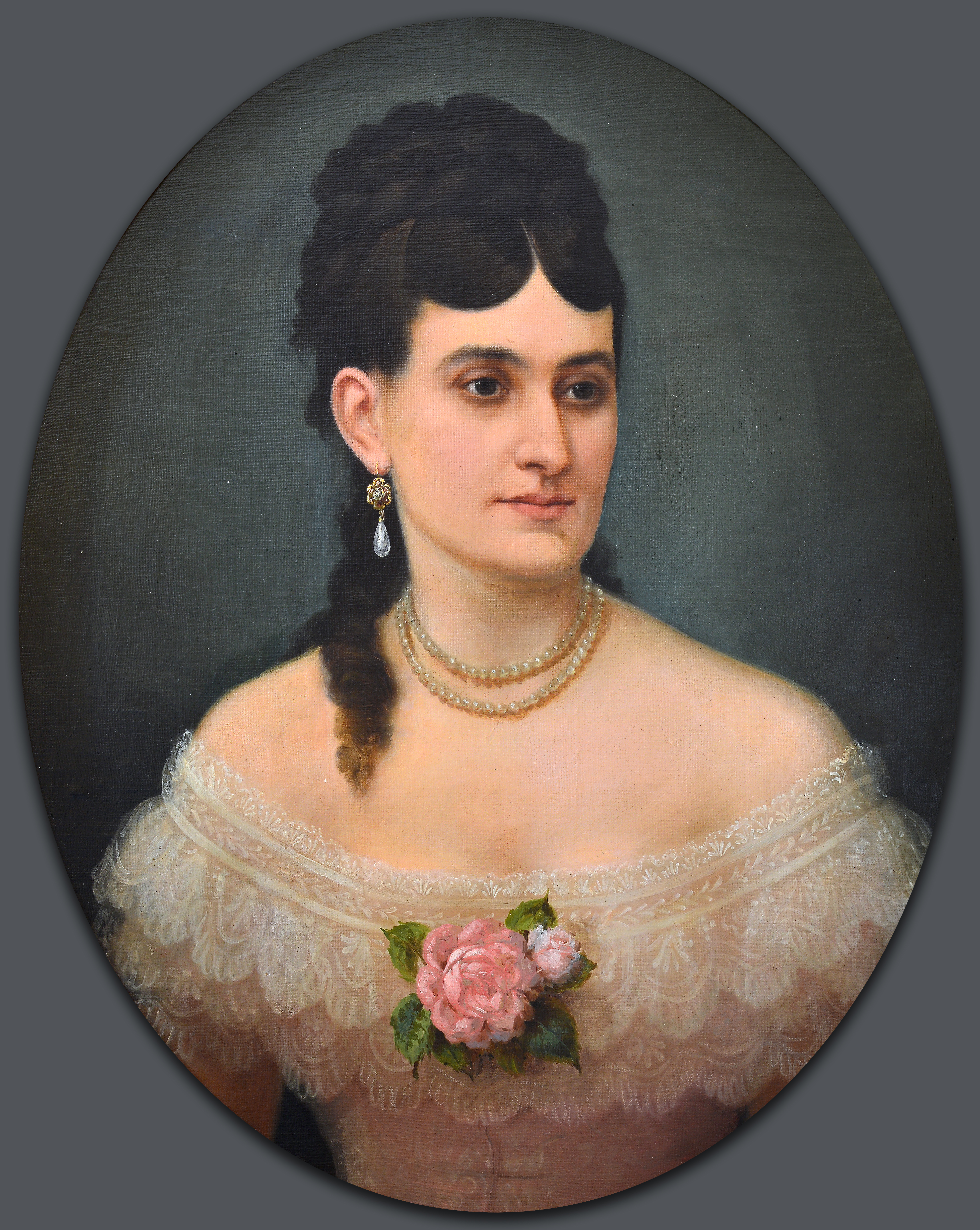 Anne Bogmer ép. Ballando de Castro (1839-1915)